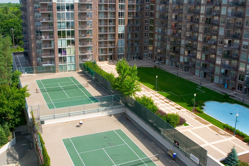 The tennis courts at the Calhoun Beach and Tennis Club apartment community